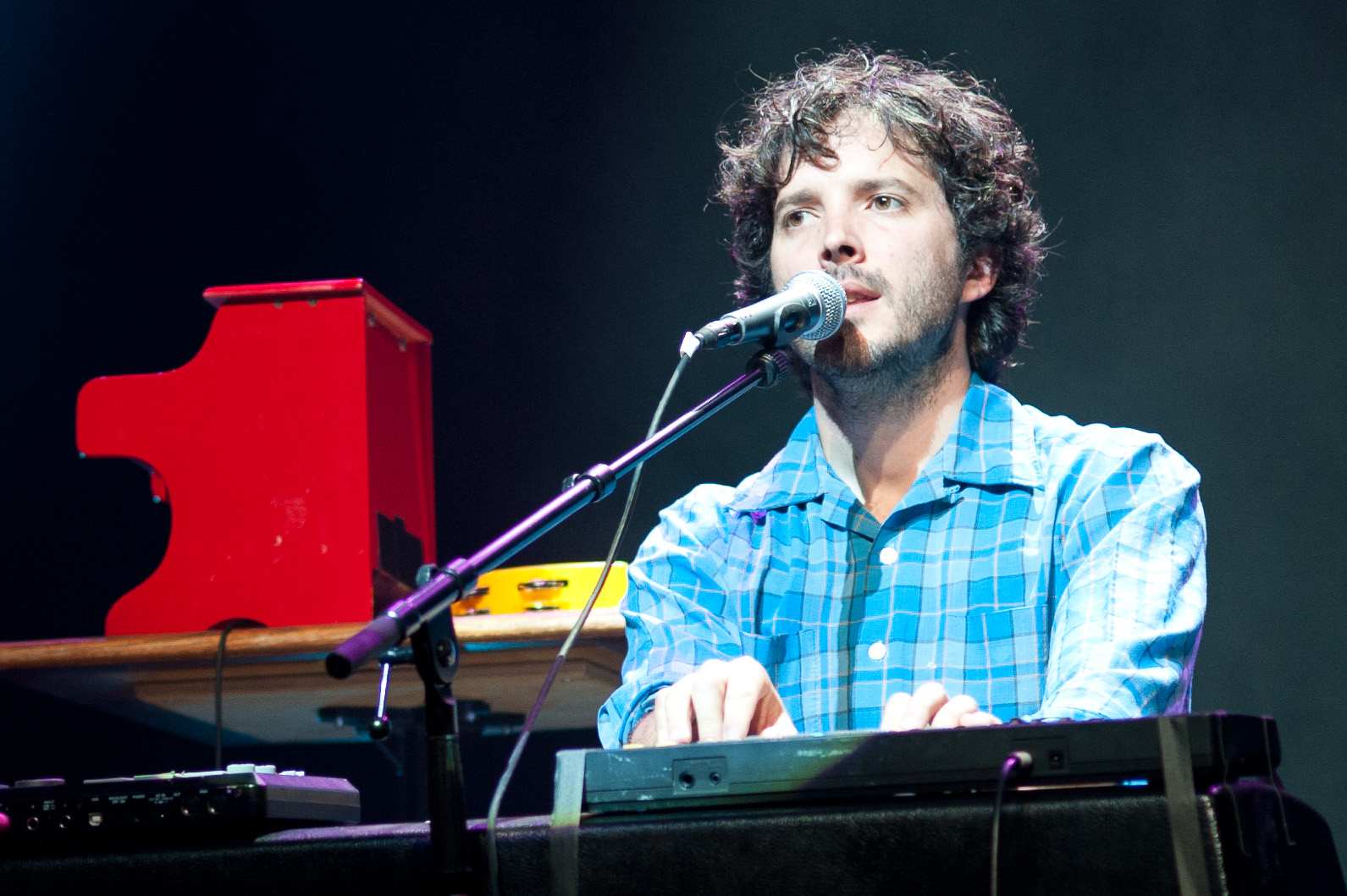 Bret McKenzie of New Zeeland group Flight of the Conchords performing at Cirkus in Stockholm, Sweden, May 2010